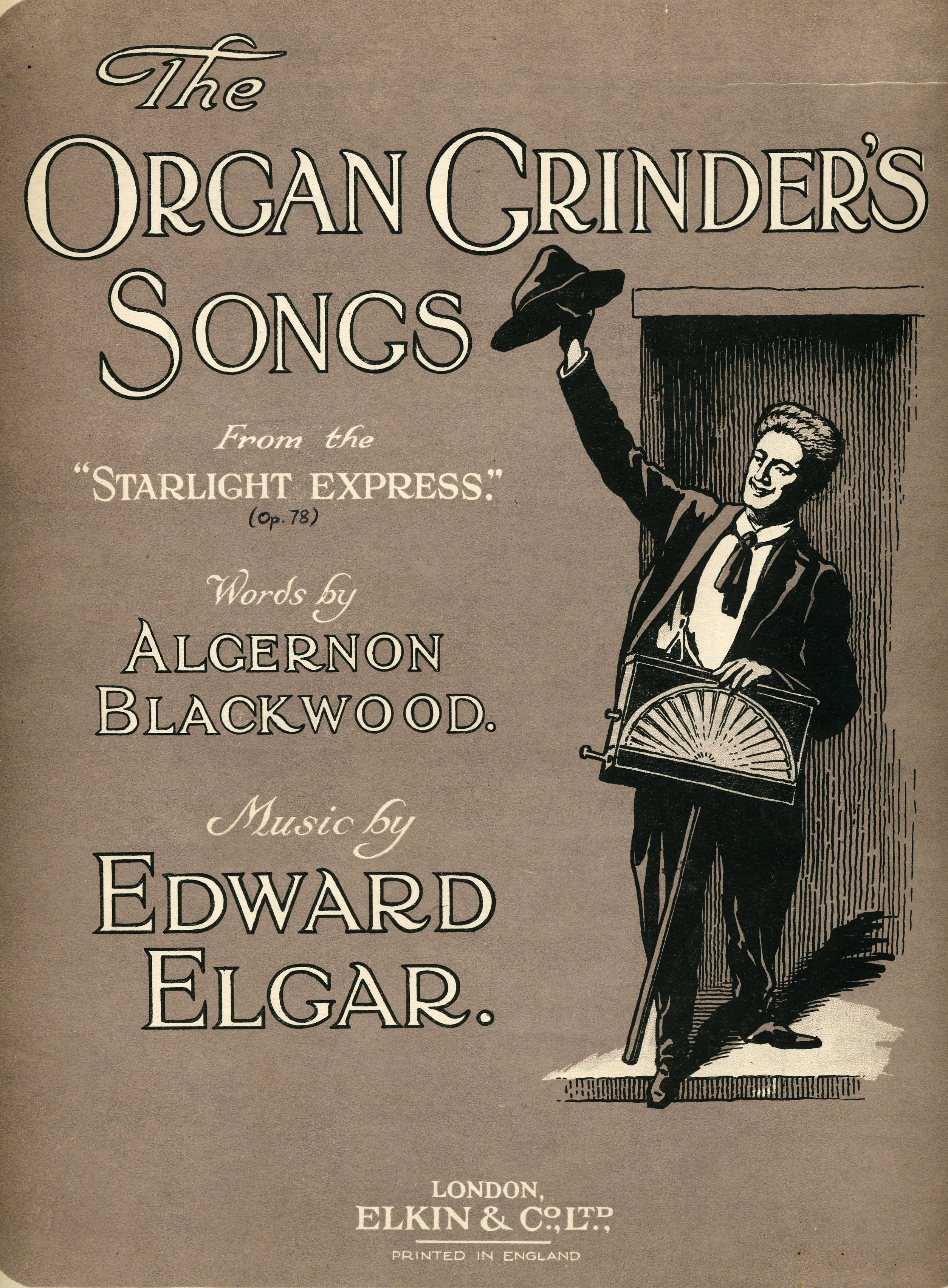 The outside cover of The Organ Grinders Songs from "The Starlight Express" by Edward Elgar, published 1916 by Elkin & Co. Ltd., London. The drawing is of Charles Mott as the Organ Grinder.